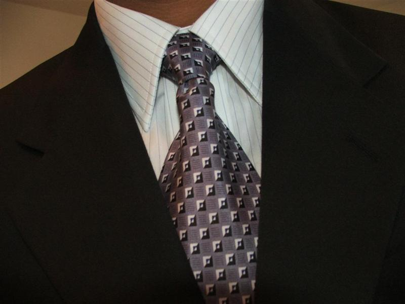 Suit and tie